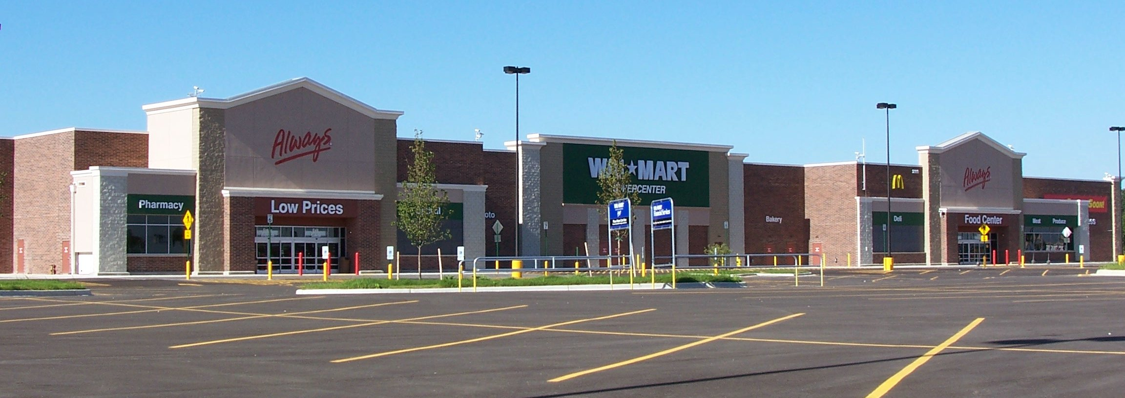 Wal-Mart Supercenter at Fountain Square, Waukegan, Illinois